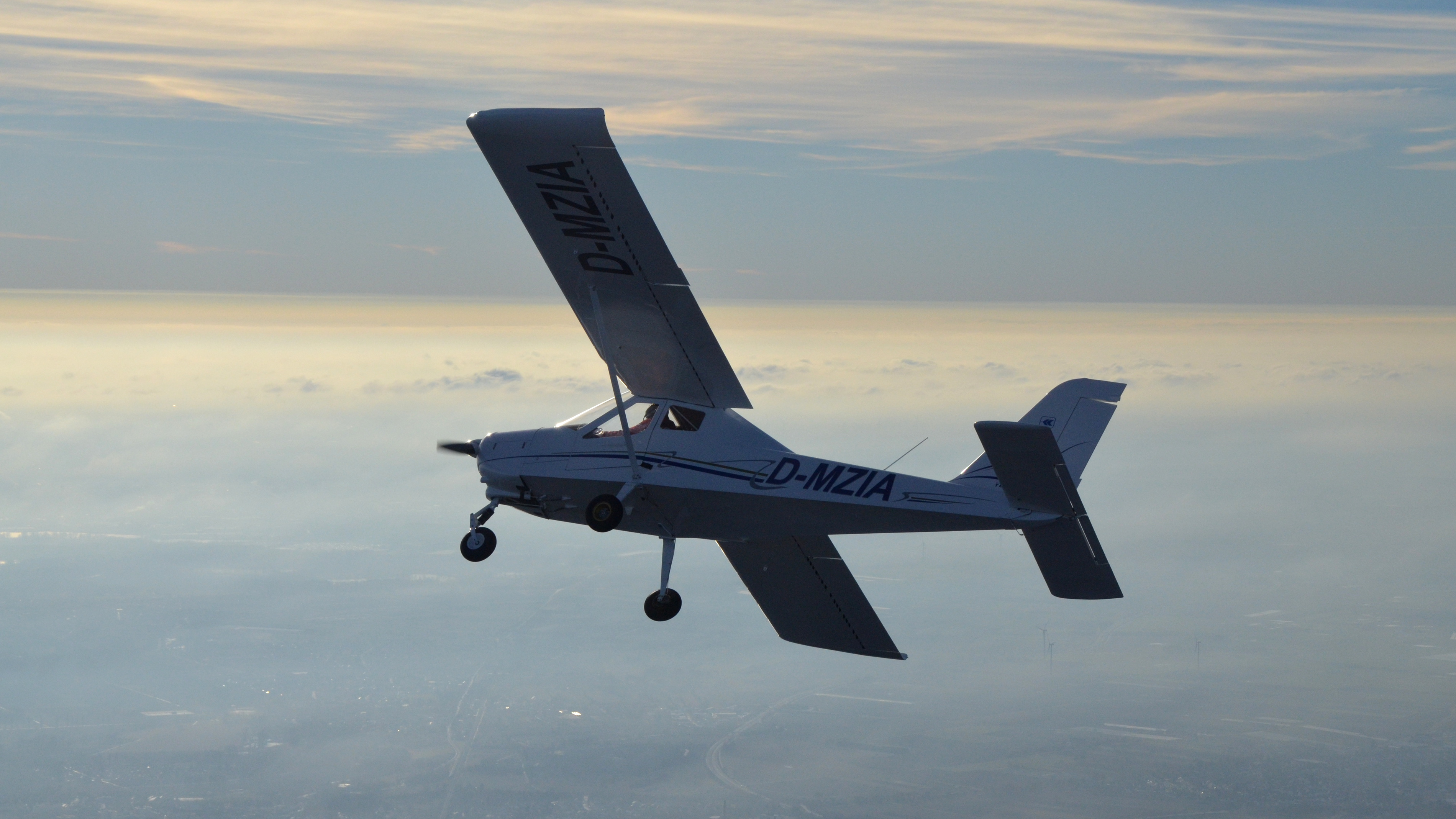 A Tecnam P92 (UL) over Germany in flight.